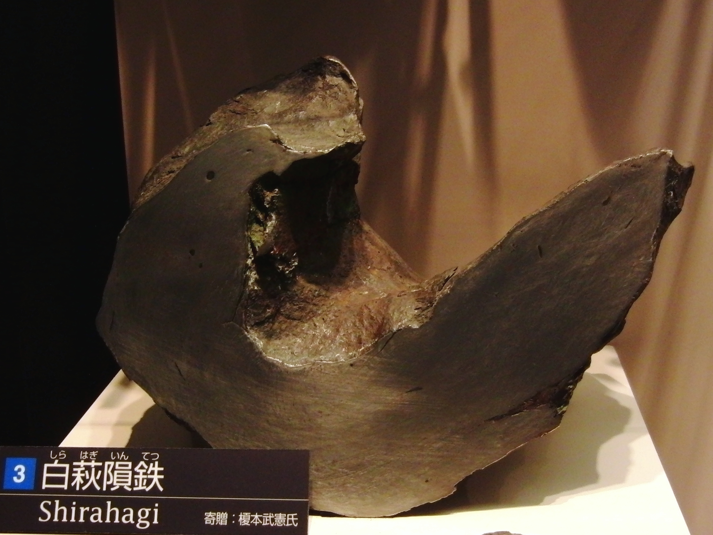 Shirahagi meteorite, Iron, IVA. Exhibit in the National Museum of Nature and Science, Tokyo, Japan.